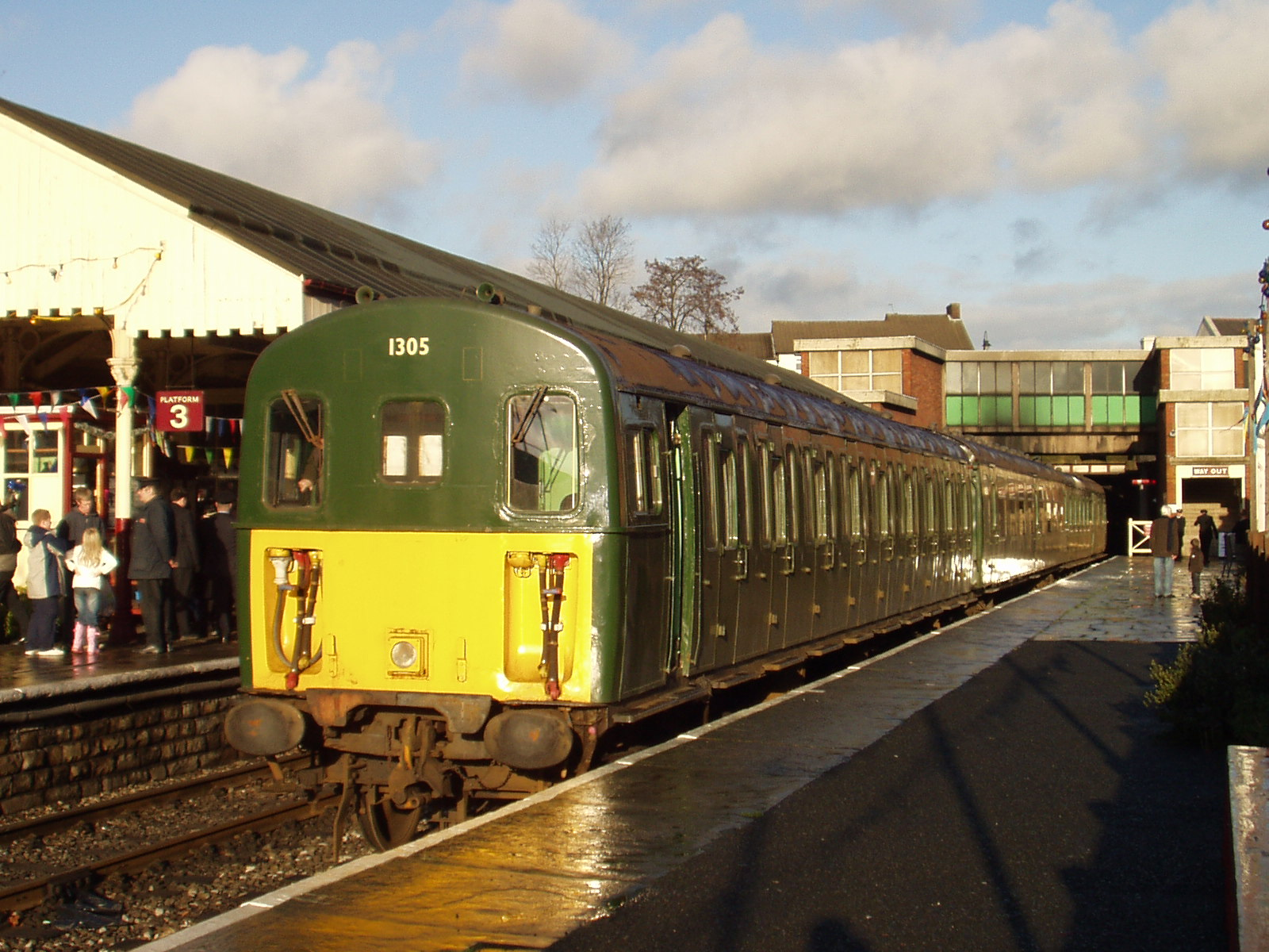 Photographer: Dave Root Location: Bolton Street Station, Bury, Greater Manchester, UK Date: 2006-12-?? Subject: Class 207 DEMU